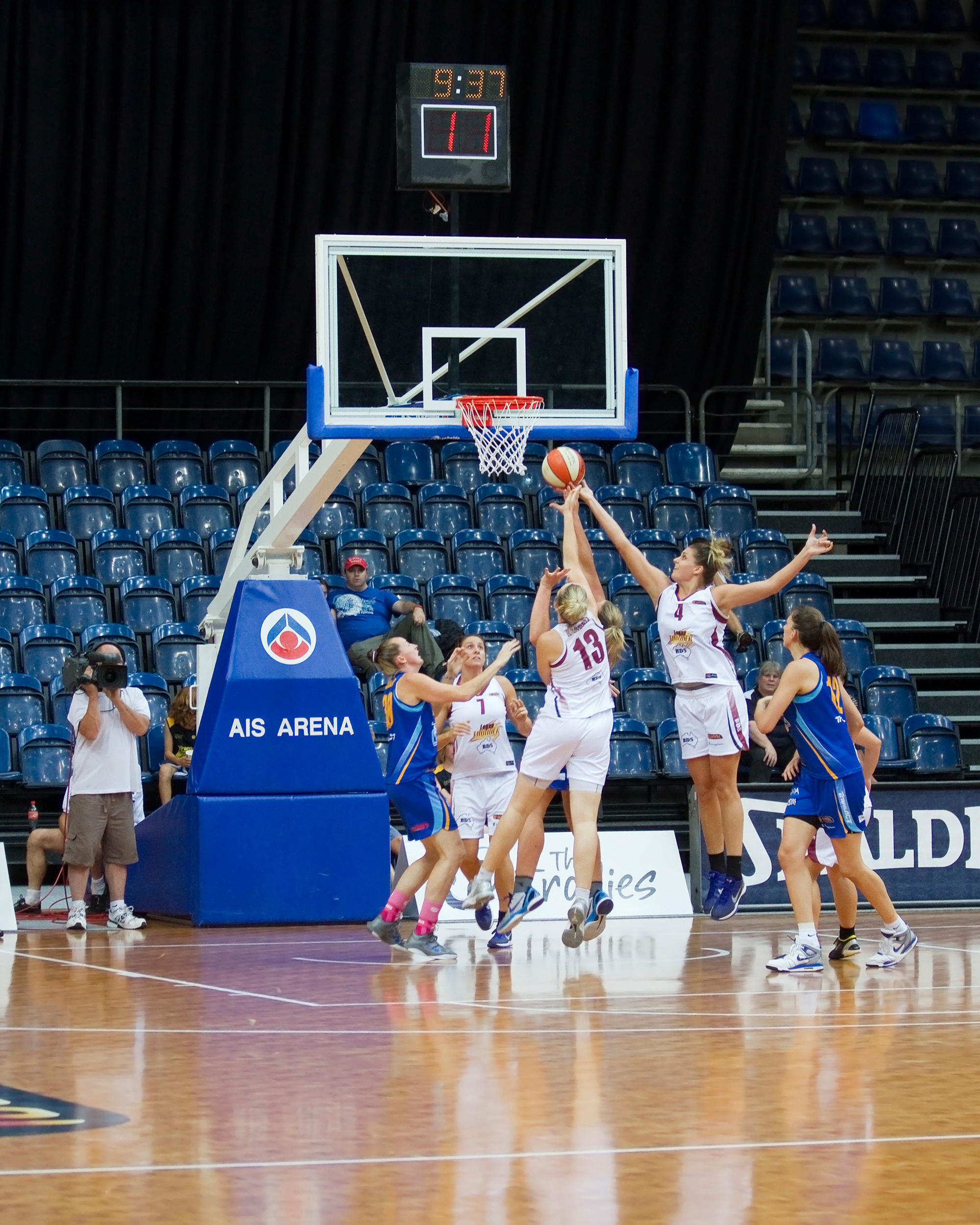 Canberra Capitals vs Logan Thunder, Australian Institute of Sport Training Hall, Canberra Australia